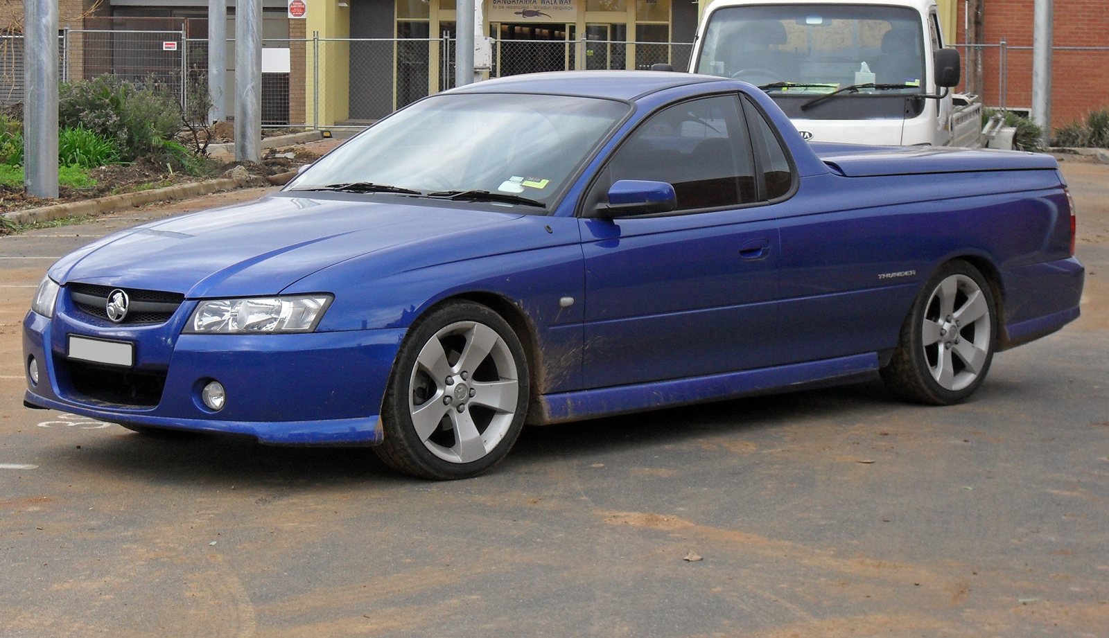 2006 Holden VZ Ute Thunder S photographed in New South Wales, Australia.